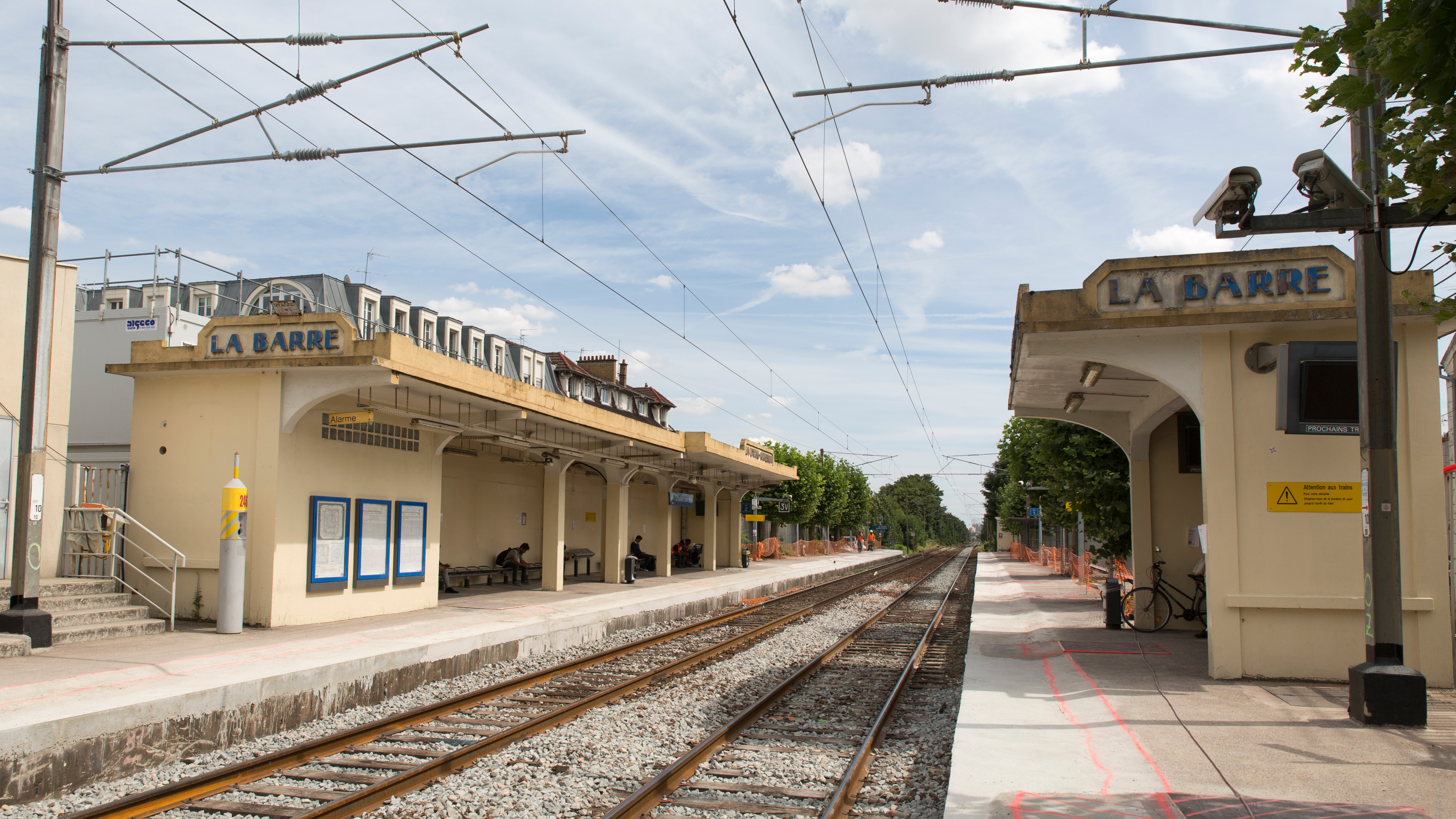 Gare de La Barre - Ormesson, abris de quai.